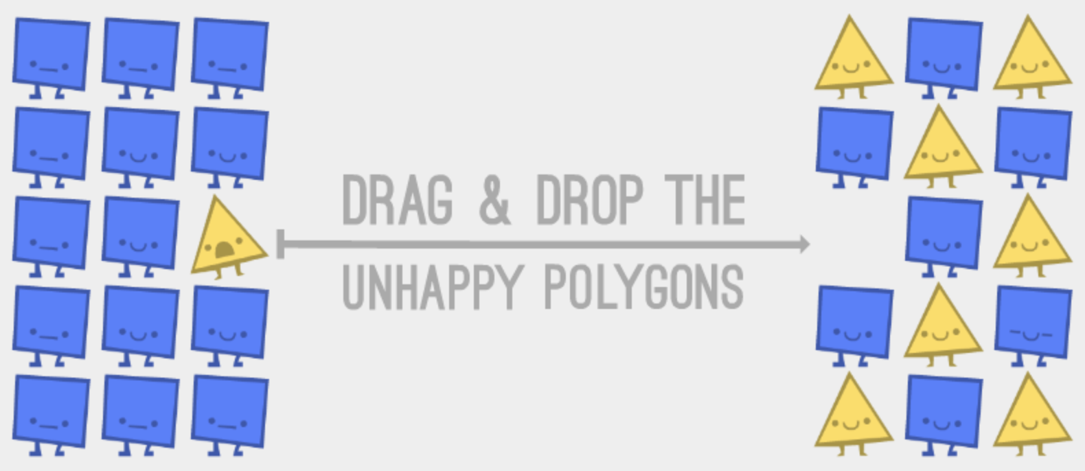 A screenshot of the first interactive portion of Parable of the Polygons, demonstrating the "drag and drop" function.